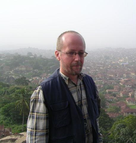 The photo was made by me